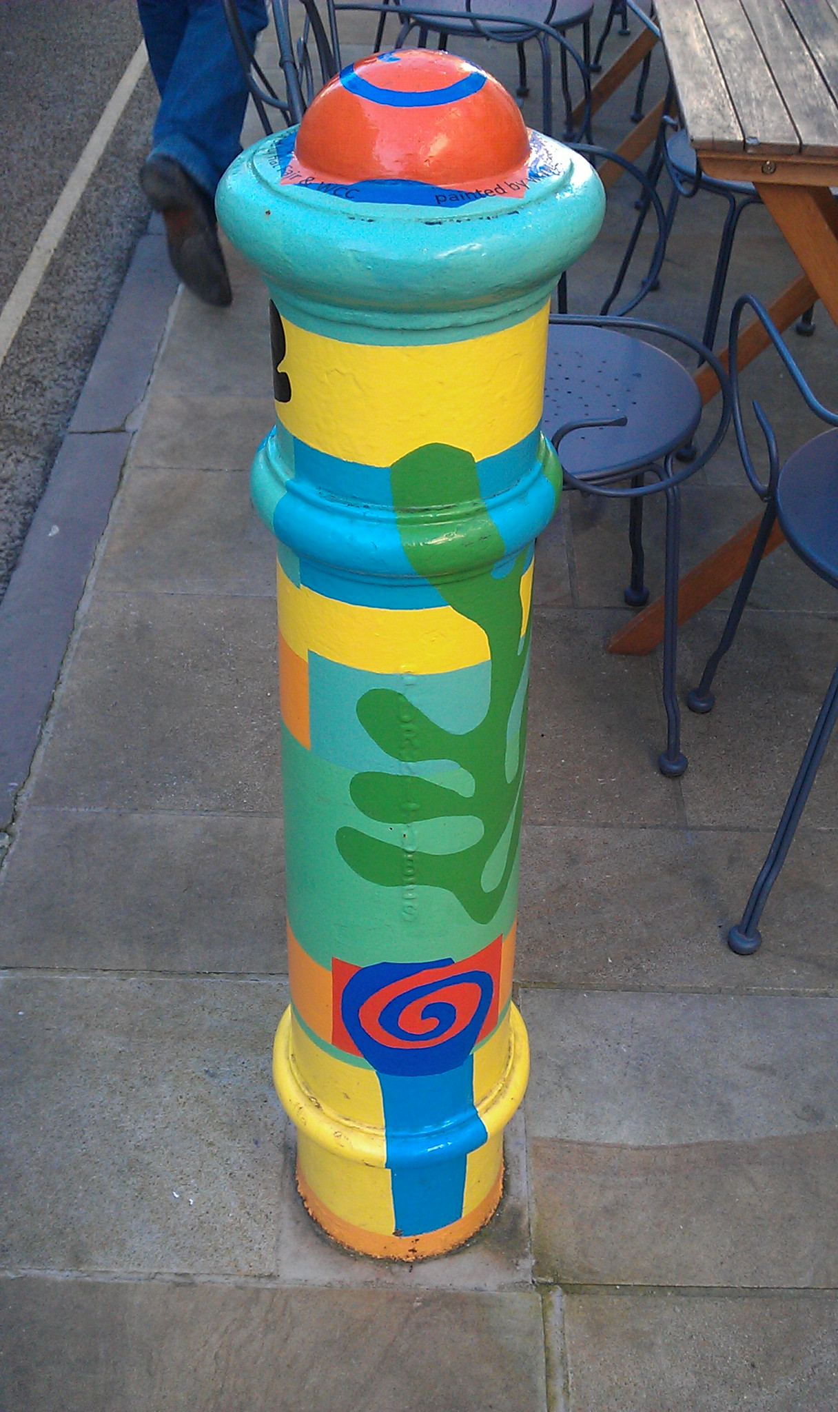 A bollard in Winchester, England, painted in the style of Beasts of the Sea by Henri Matisse. This is one of a series, on the corner of Great Minster Street and The Square, painted by